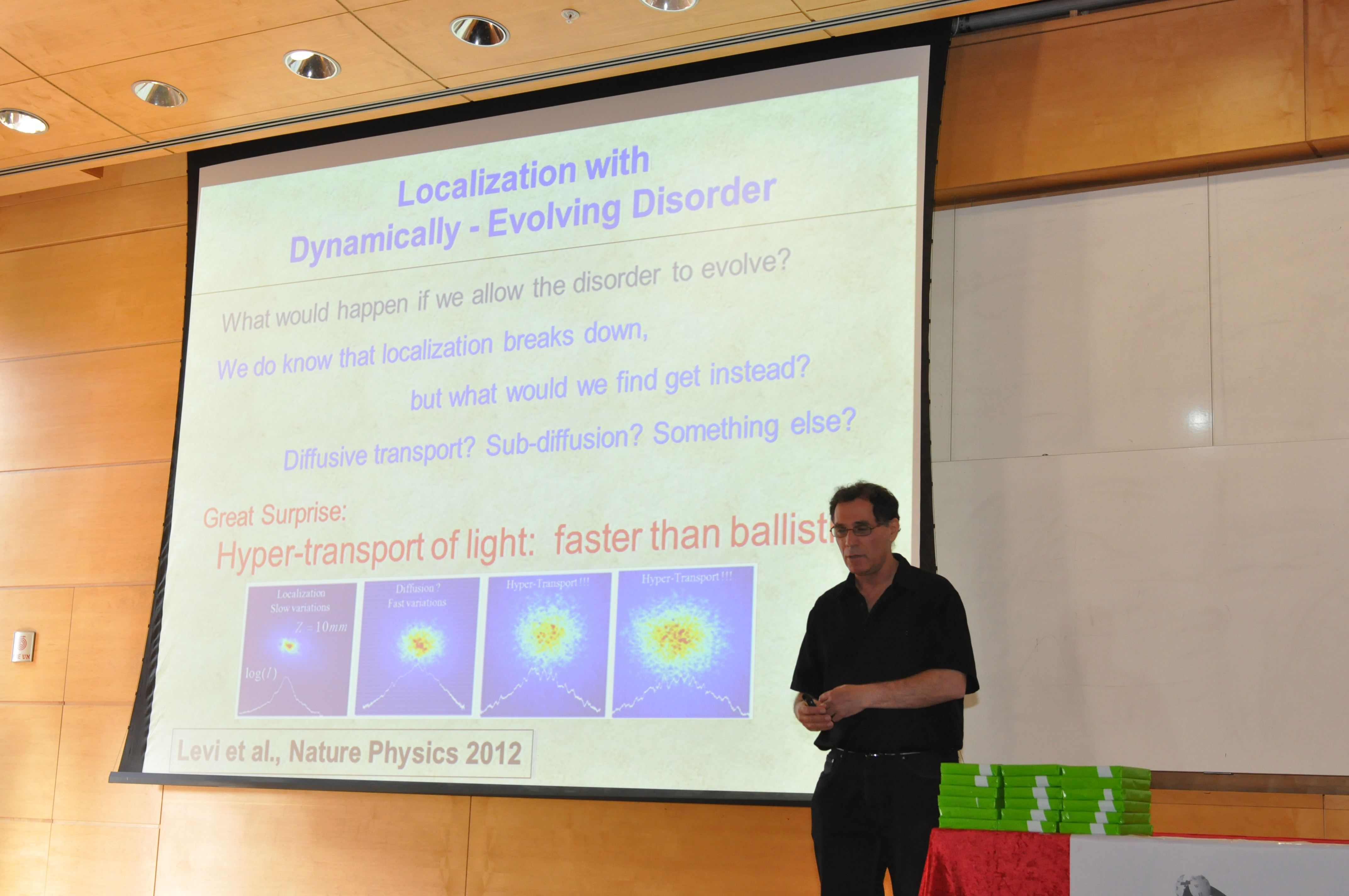 פרופסור מוטי שגב מרצה בכנס פיזיוויקי השני